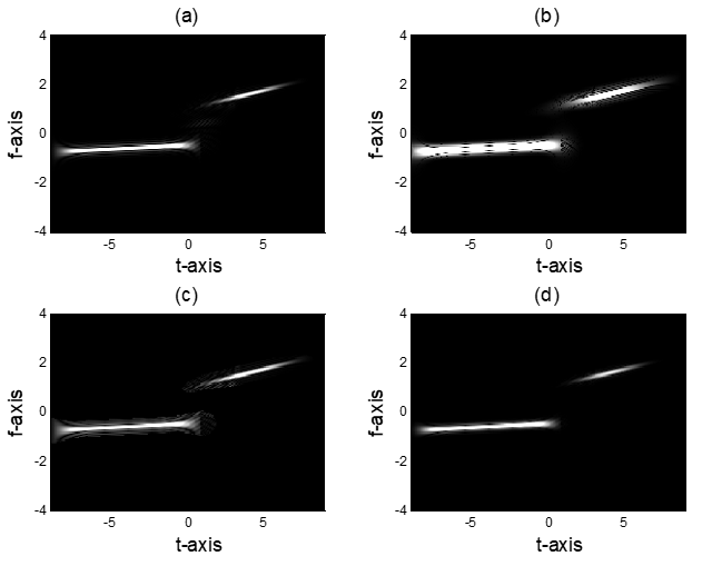 時頻分析與小波轉換